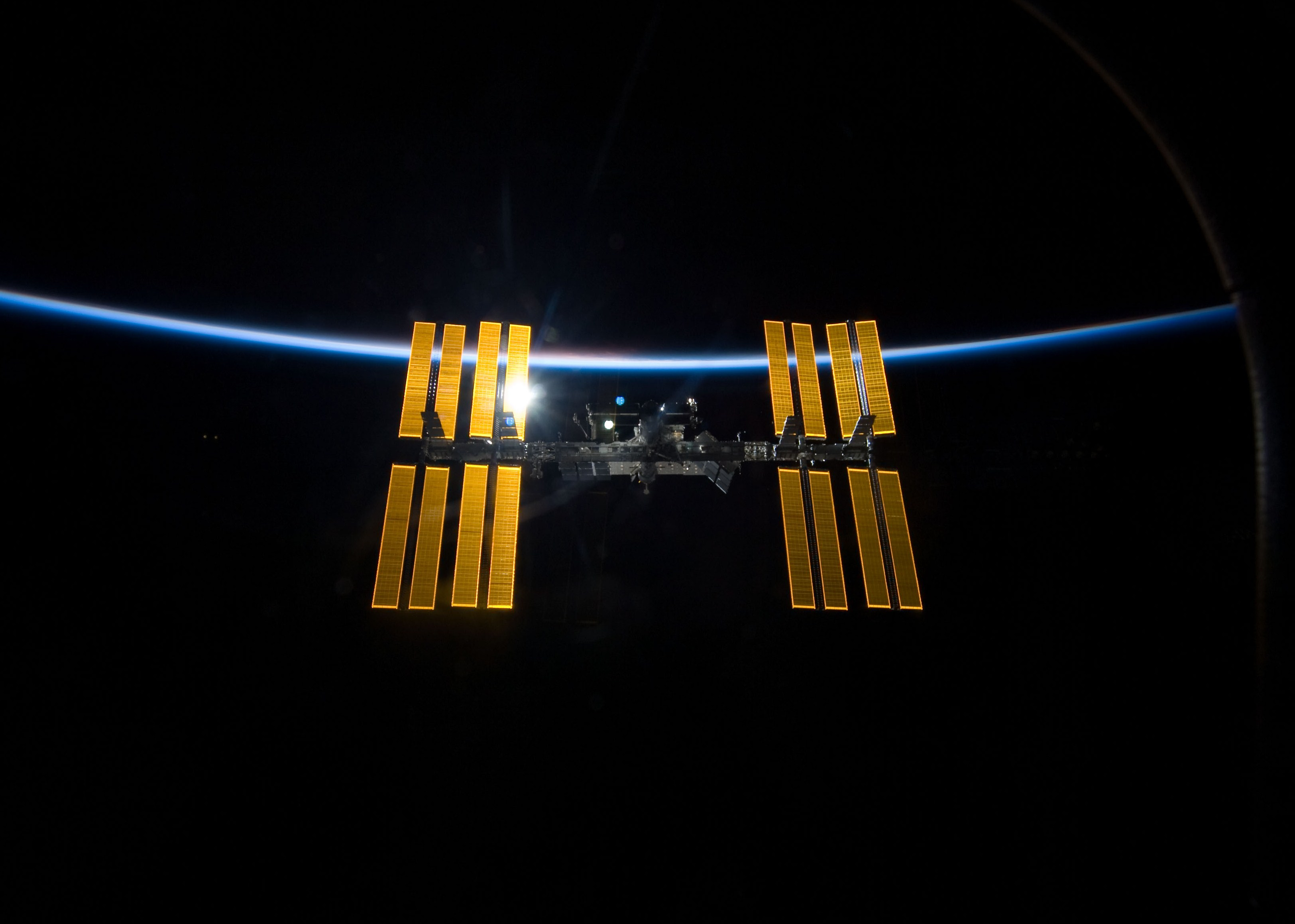 Backdropped by the blackness of space and the thin line of Earth's atmosphere, the International Space Station is seen from Space Shuttle Discovery as the two spacecraft begin their relative separation. Earlier the STS-119 and Expedition 18 crews concluded 9 days, 20 hours and 10 minutes of cooperative work on-board the shuttle and station. Undocking of the two spacecraft occurred at 14:53 CDT on 25 March 2009.